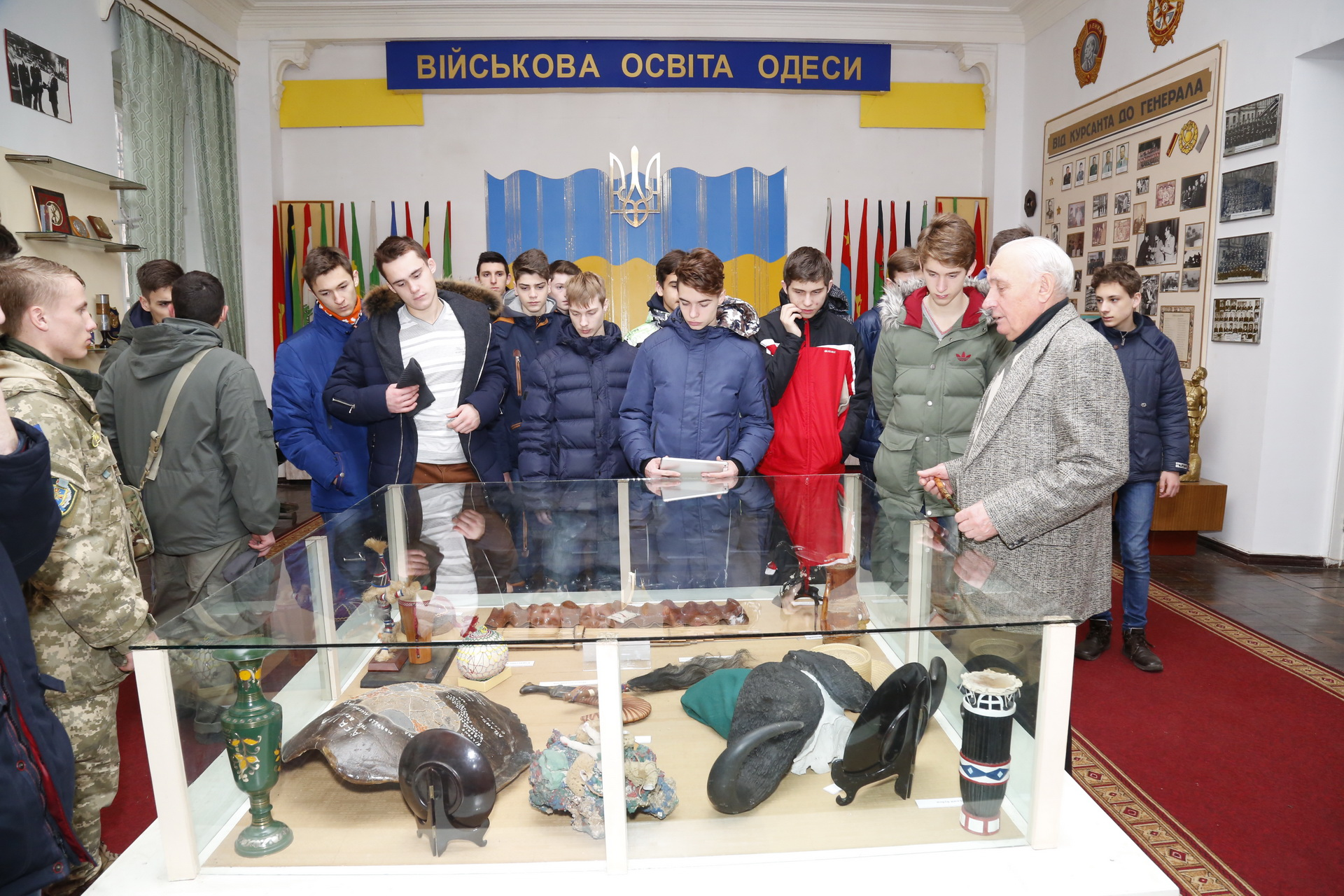 У Військовій академії (м. Одеса) відбувся день відкритих дверей